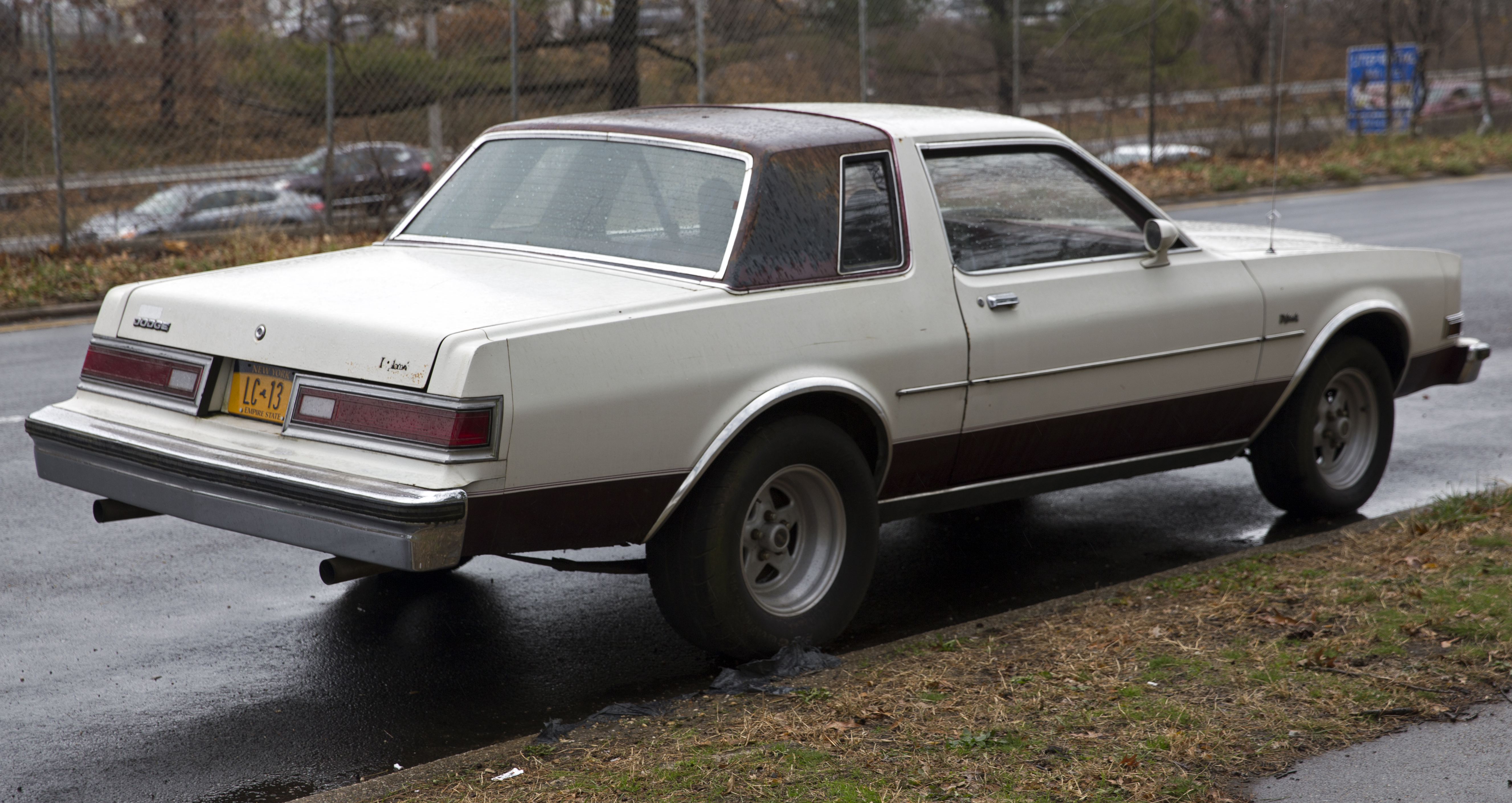 1981 Dodge Diplomat coupe, seems to be a slant-six built in St. Louis plant #1. Last year for this bodystyle.